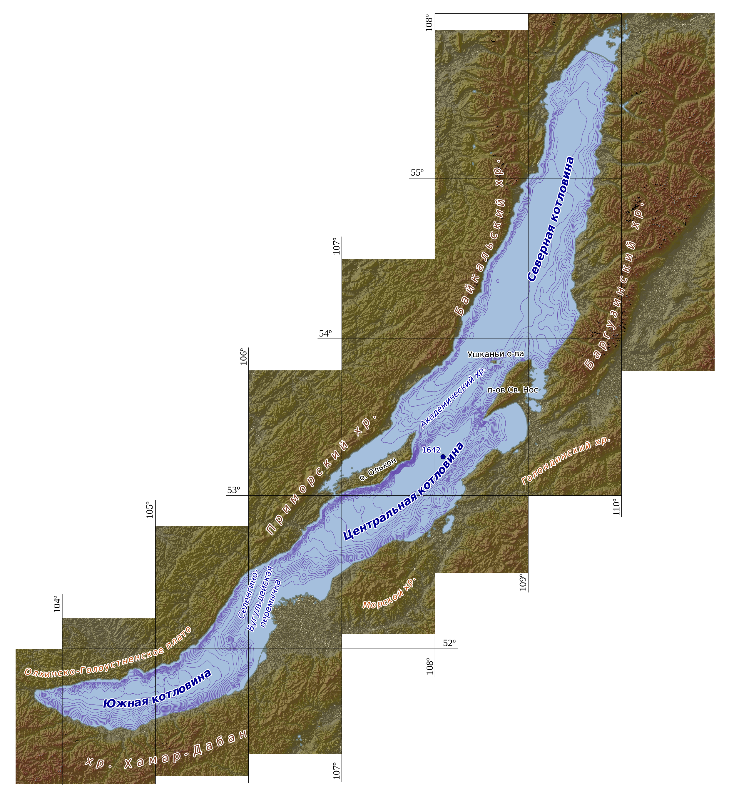 The surface and underwater relief of Lake Baikal